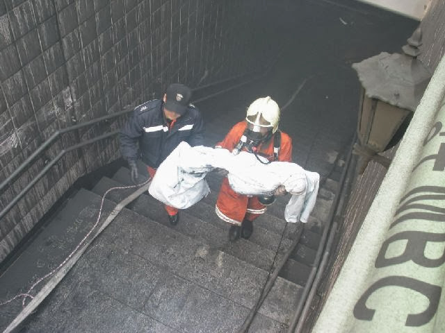 Daegu subway fire